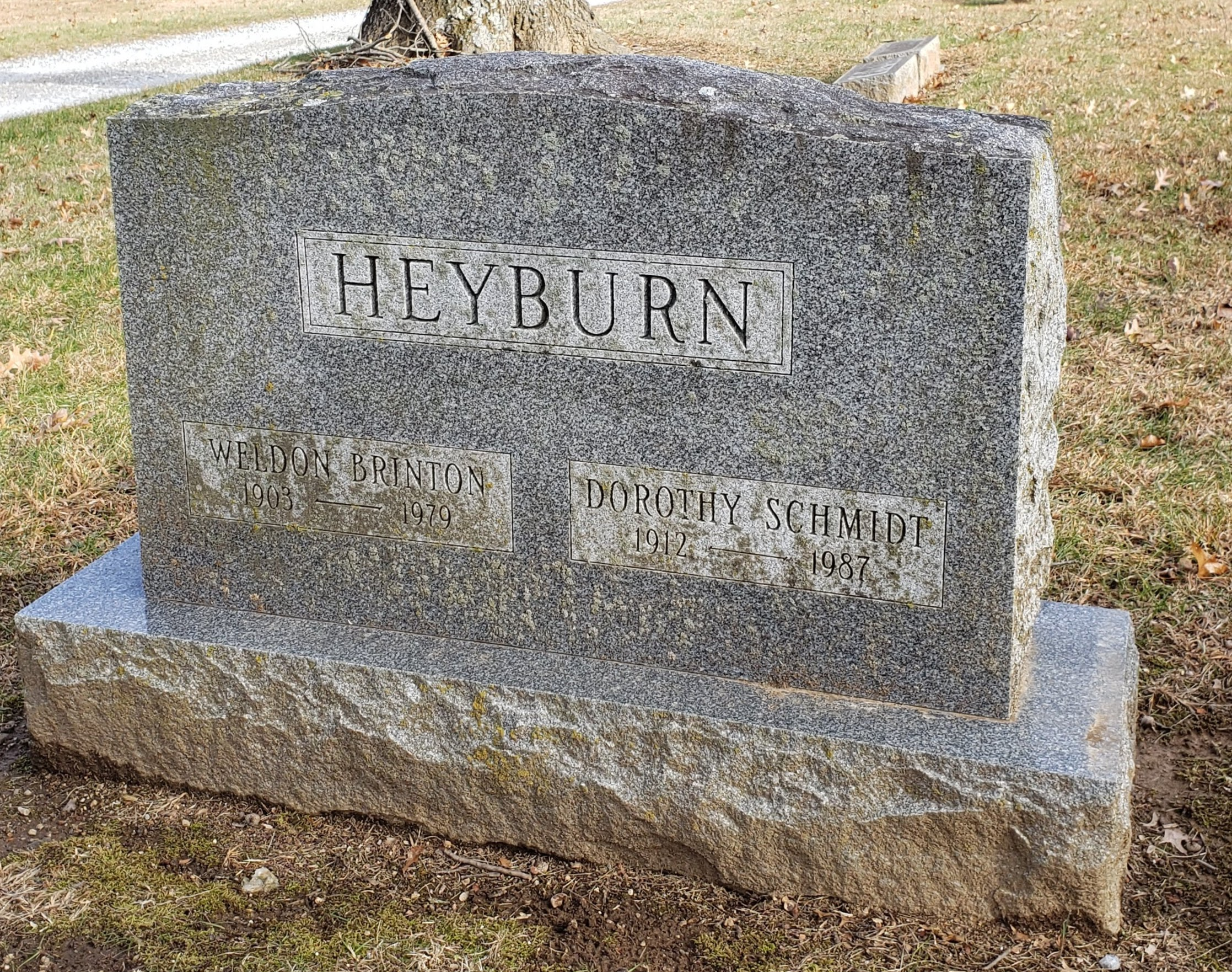 Weldon Brinton Heyburn grave in Birmingham-Lafayette Cemetery in Birmingham Township, Pennsylvania. Photo taken December 2019.